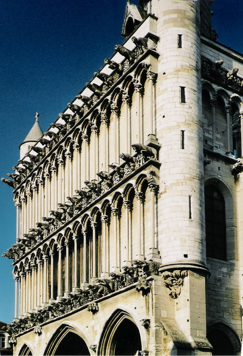 Front of the porch of the church Notre Dame in Dijon, Burgundy, France.